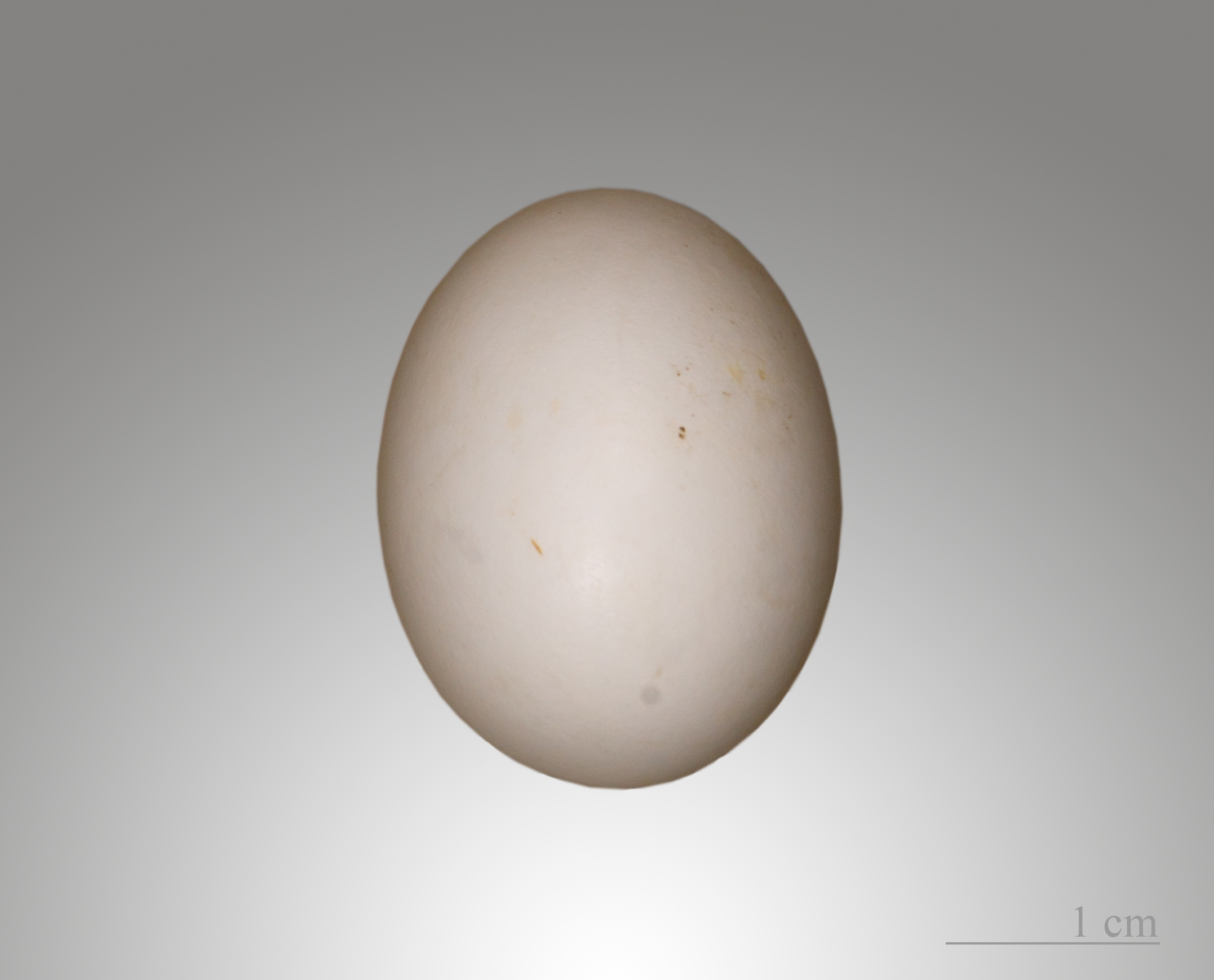 Egg of Laughing Dove. Collection Jacques Perrin de Brichambaut. Locality: Kabret, Suez Canal, Egypt.